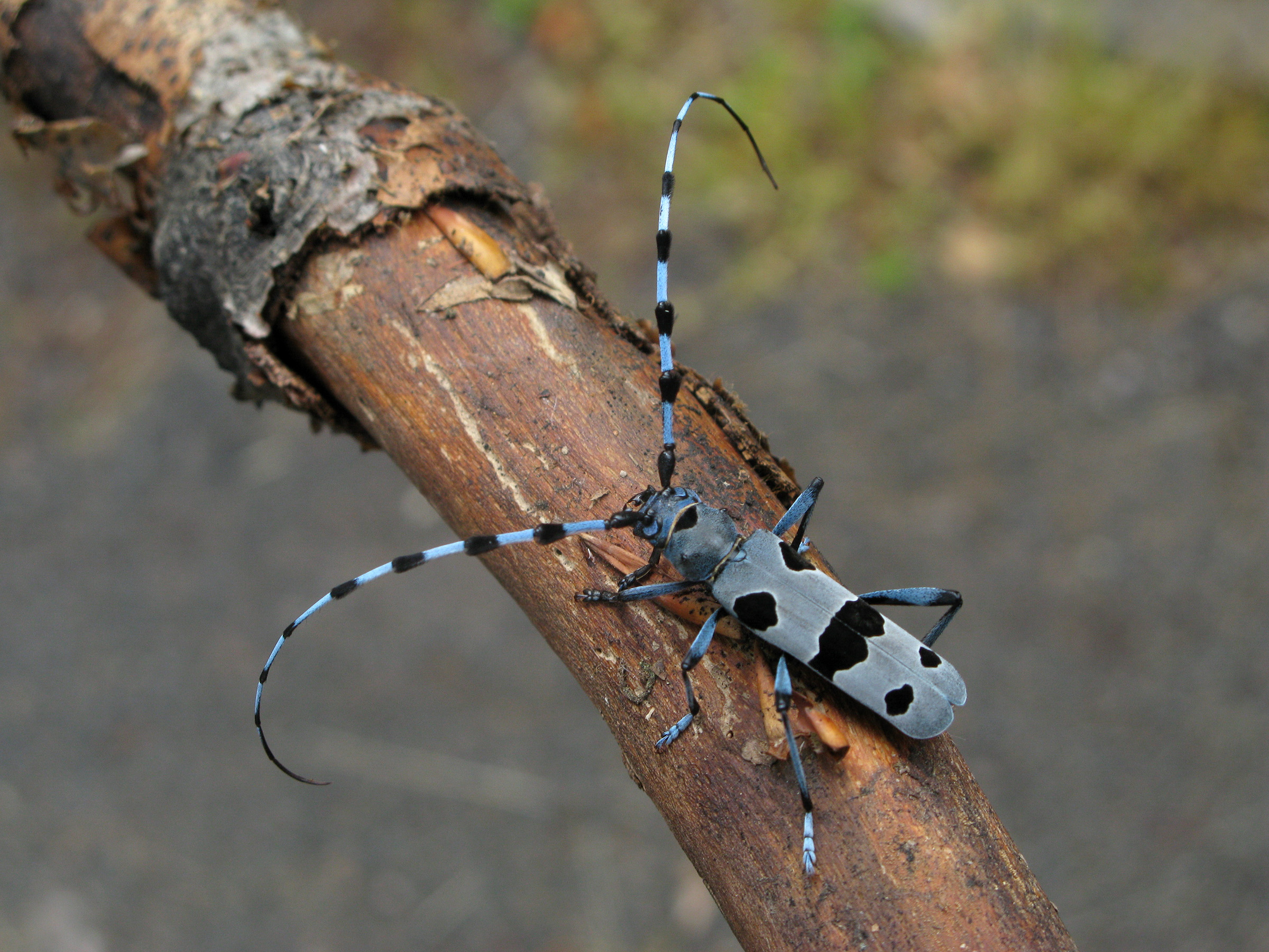 Rosalia alpina in Hungary near Hejce